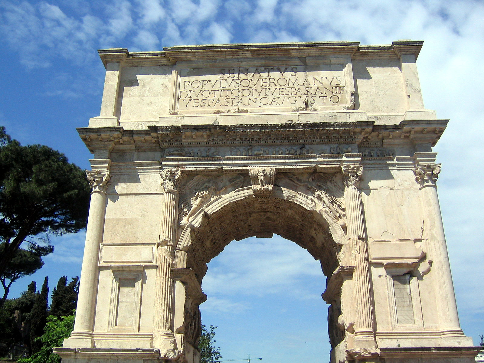 The Arch of Titus was restored in the early nineteenth century by the architect Valadier, who basically reconstructed it. Only the central arch and inscription are original.arch of titus 2